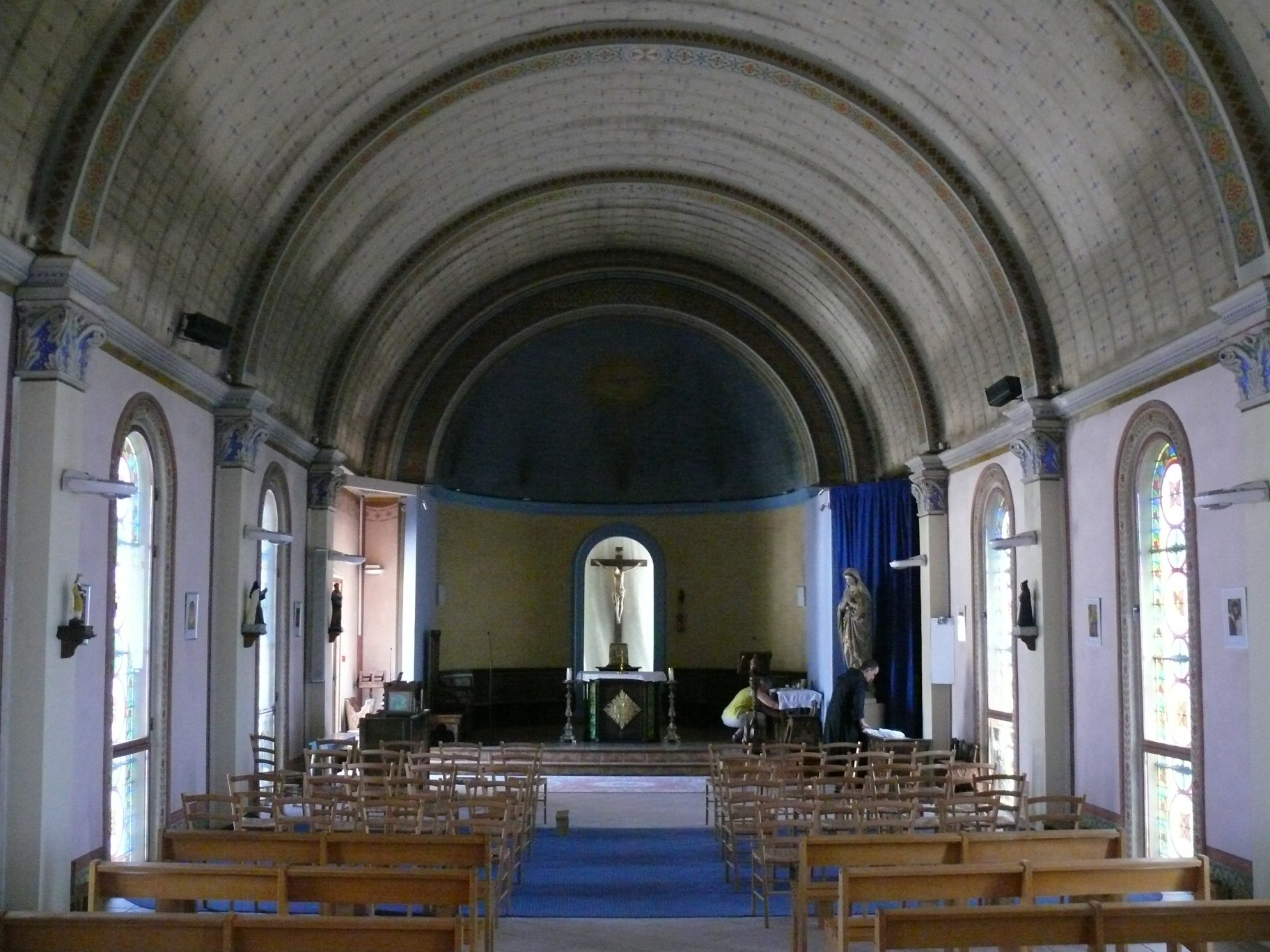 The chapel of the seminary of the diocesan domain of La Castille in Solliès-Ville (Var, Provence-Alpes-Côte d'Azur, France).